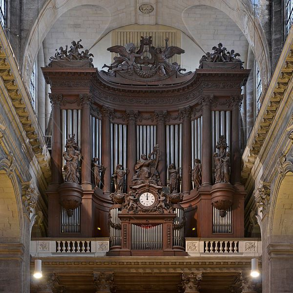 Organ at Sainte-Sulpice Church in Paris, France